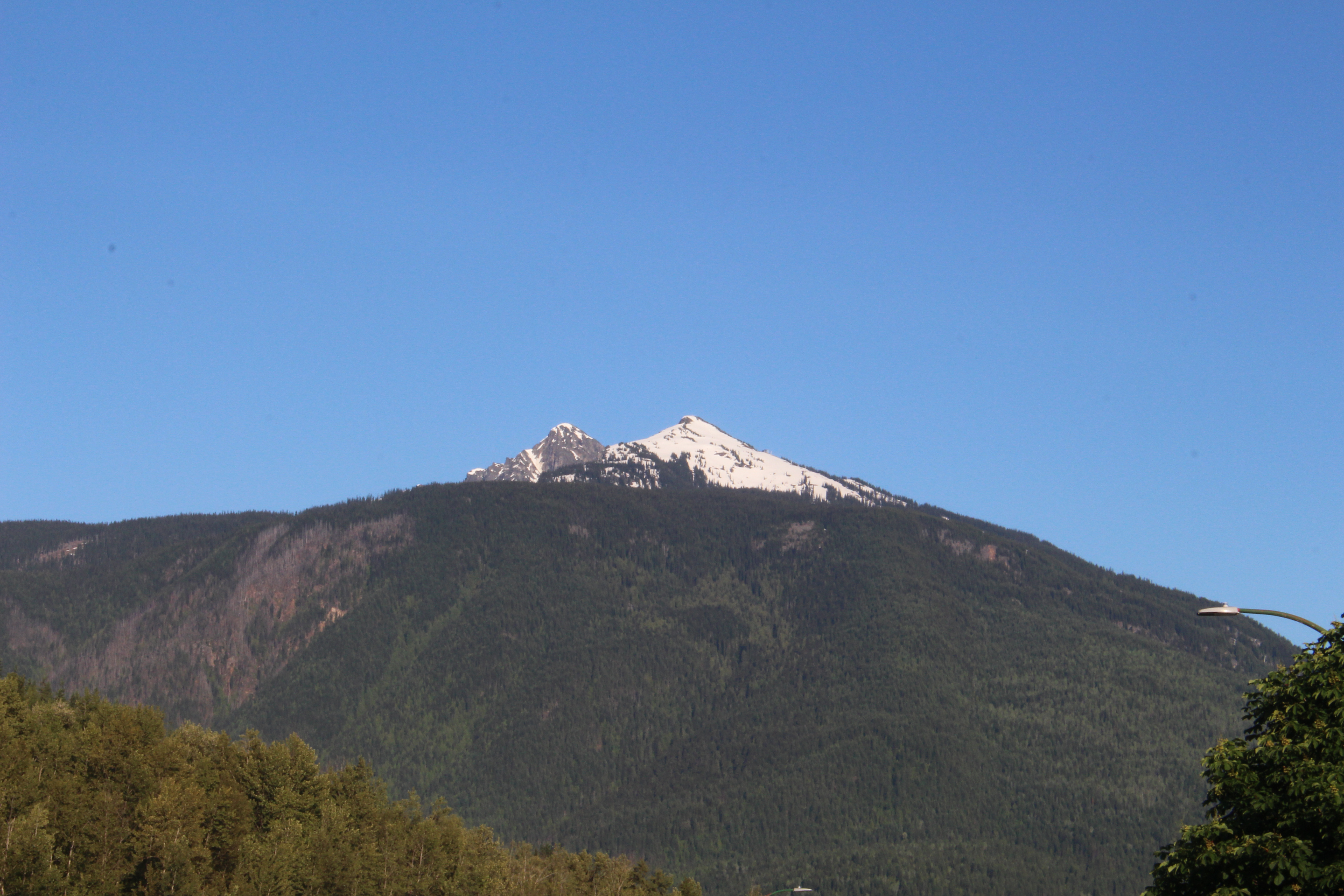 Mount Mackenzie, British Columbia